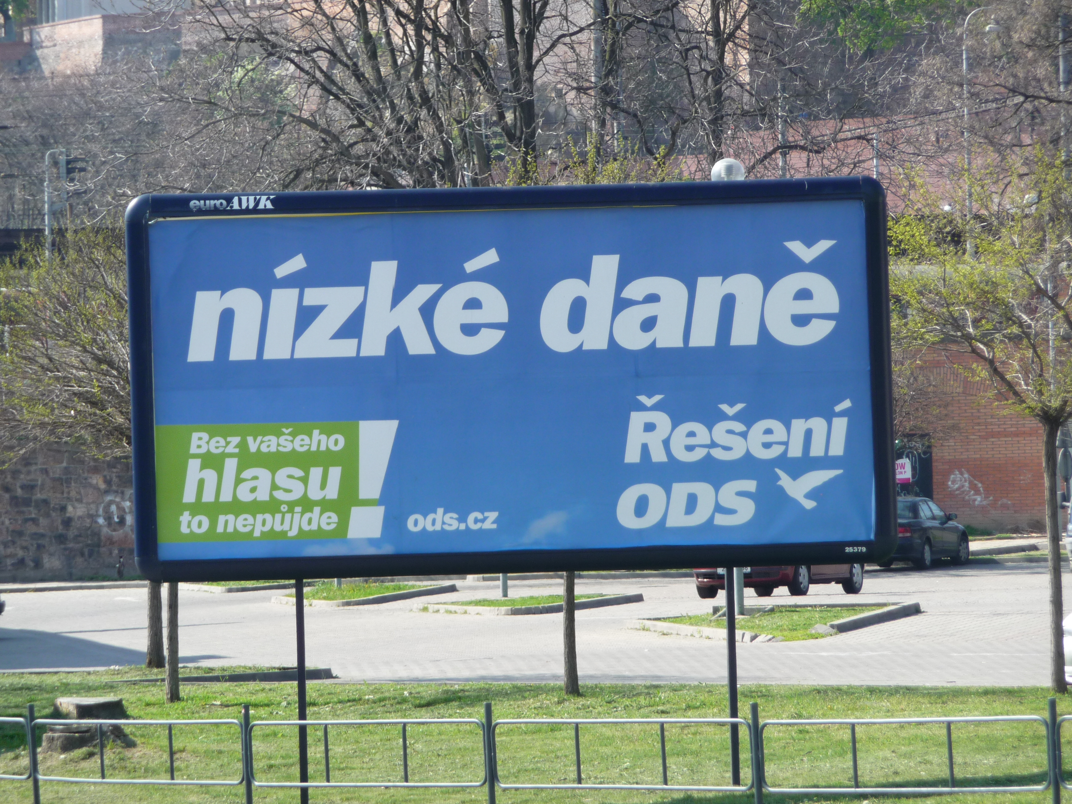 Pre-election billboard of Civic democratic party in Brno